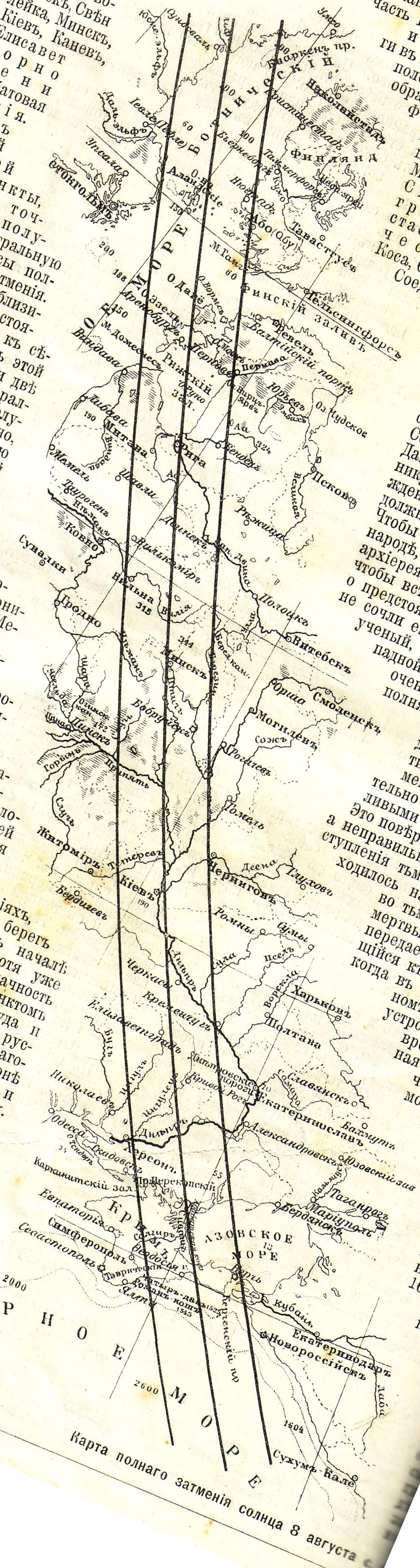 Map of the full solar eclipse in 21 August 1914 (8 August 1914 in Julian calendar) above places of battles during First World War from Niva Magazine, issue 31, 1914.